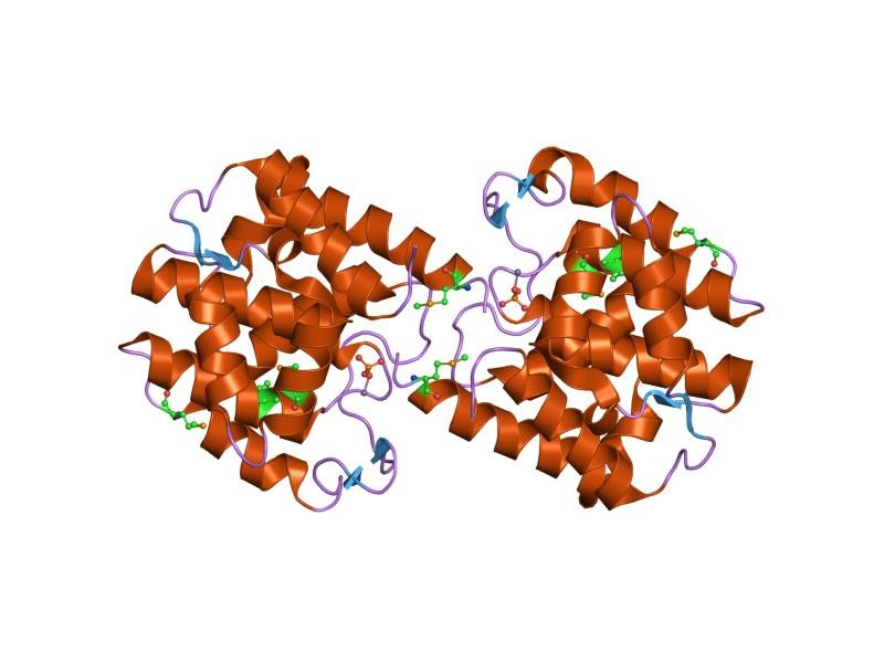 Cartoon representation of the molecular structure of protein registered with 2f6s code.